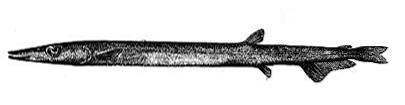 Ribbon barracudina (Arctozenus risso)